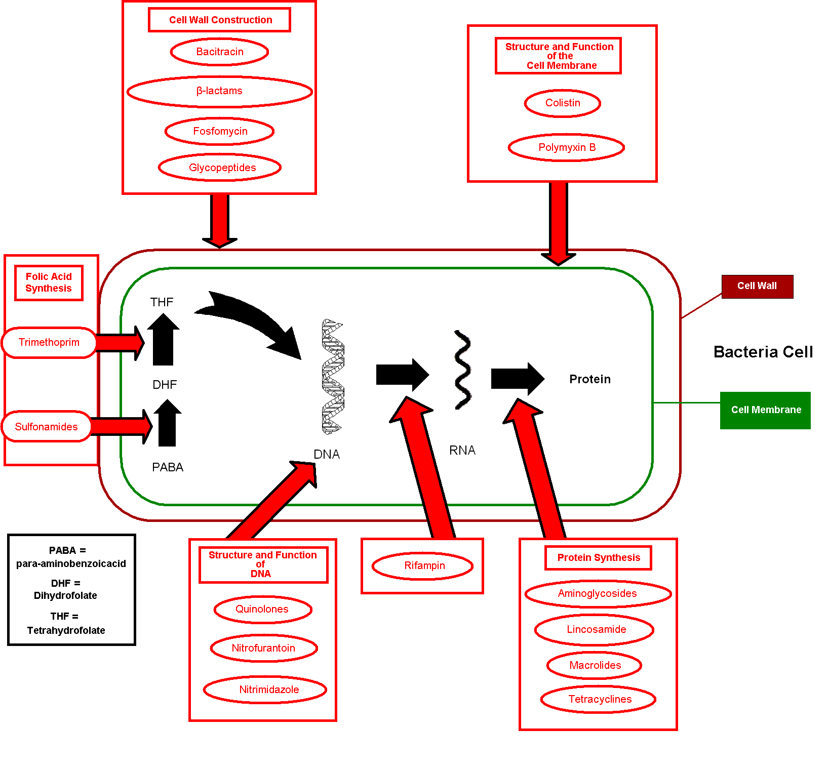 Author of original german version: User:FEERERO Author of translated english copy: User:J_Raghu Format